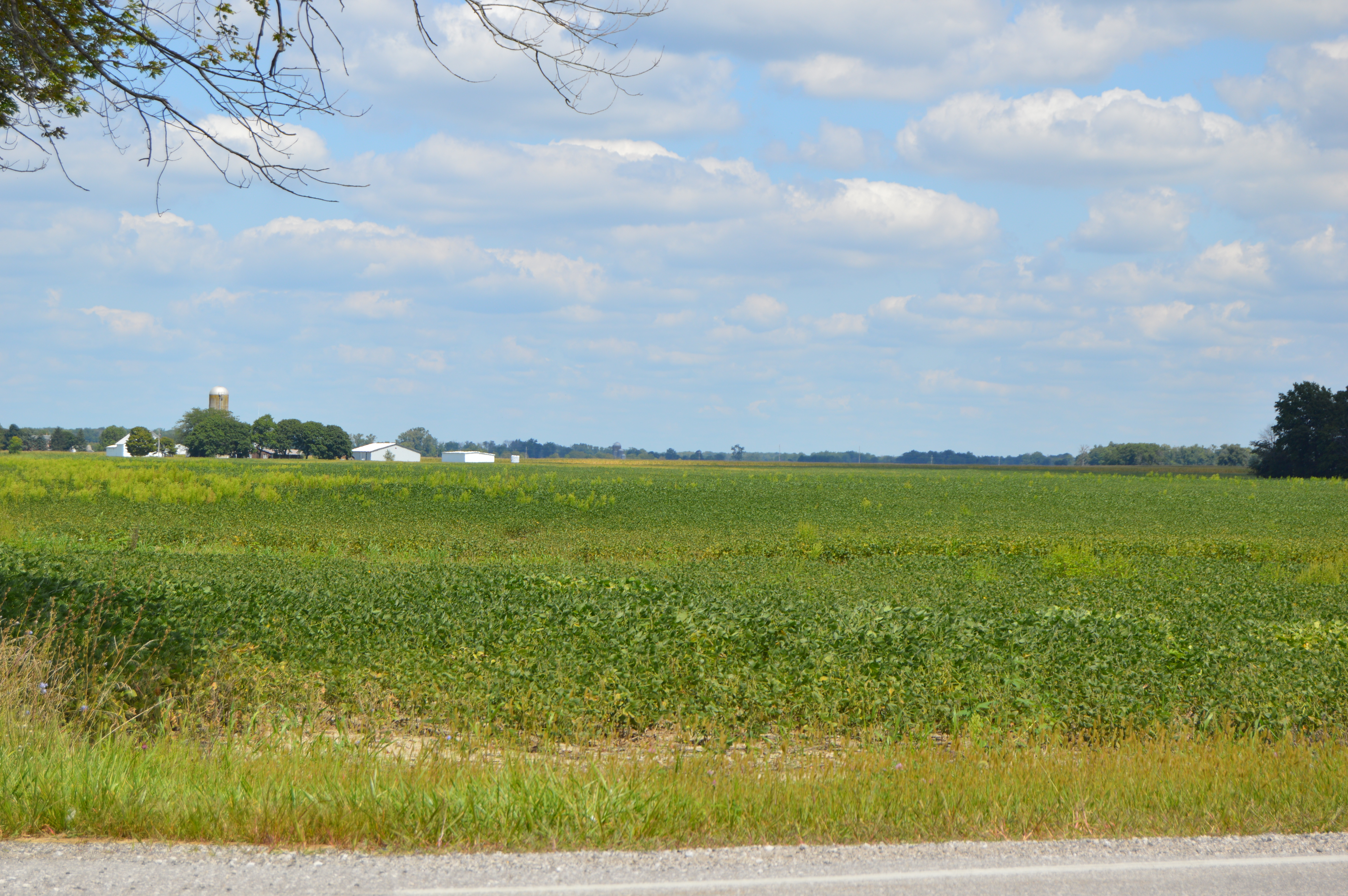 Looking north from the junction of State Route 47 and Gooding Road east of Prospect in Prospect Township, Marion County, Ohio, United States.